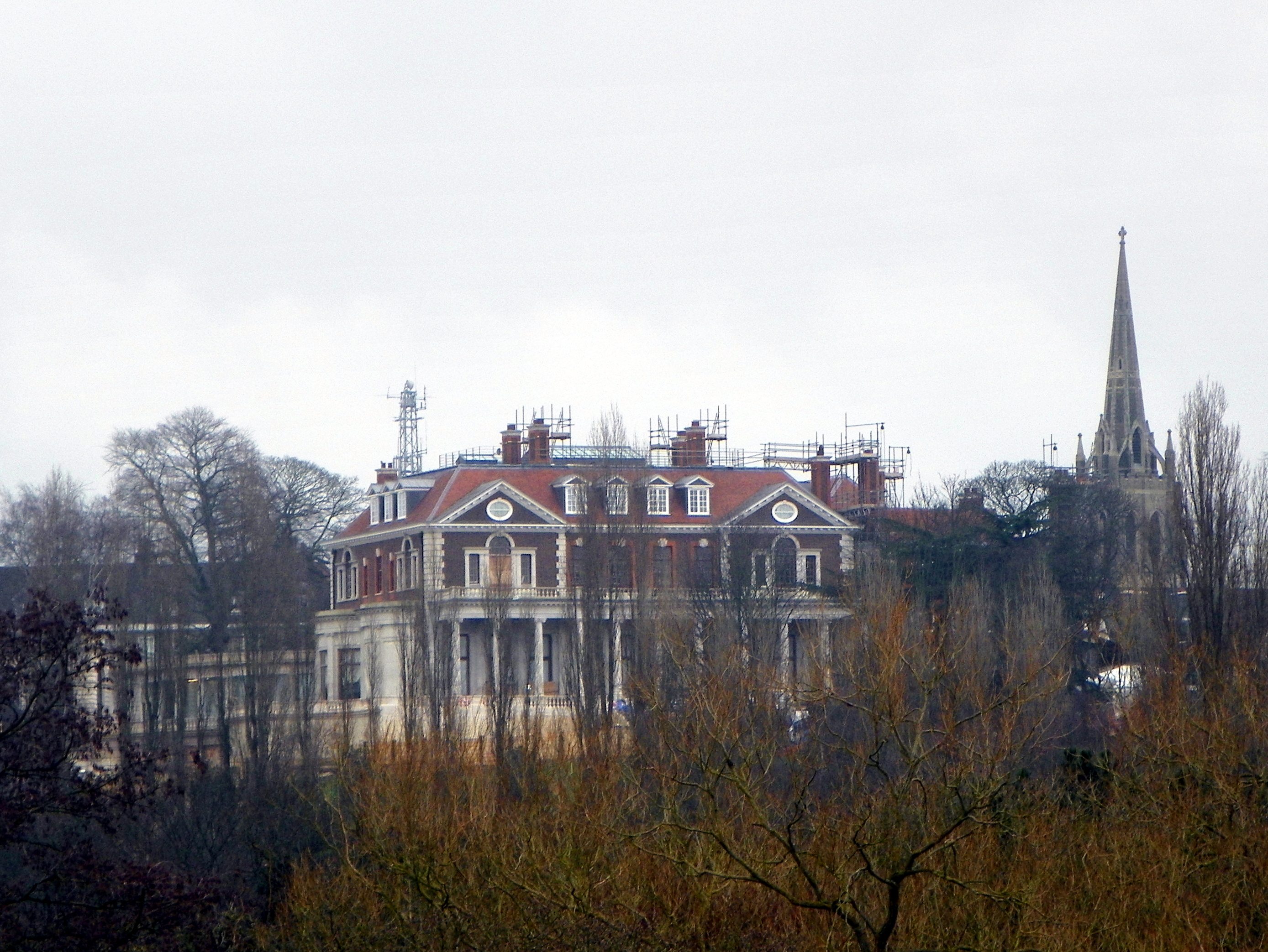 Witanhurst (a Grade II* listed building) and Church of St Michael (a Grade II listed building), Highgate, London Borough of Camden, as seen from Hampstead Heath. Witanhurst was the home of the BBC's Fame Academy talent show.